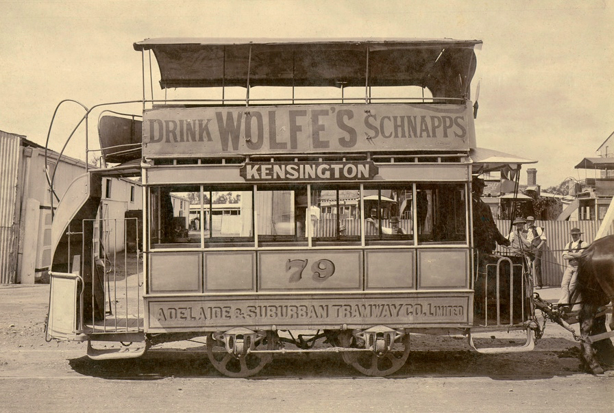 Horse tram 79 of the Adelaide & Suburban Tramway Co. Limited, with "Kensington" sign on the side. Probably at Kensington depot, ca 1909. Side view; a driver is at the reins and other employees are watching.